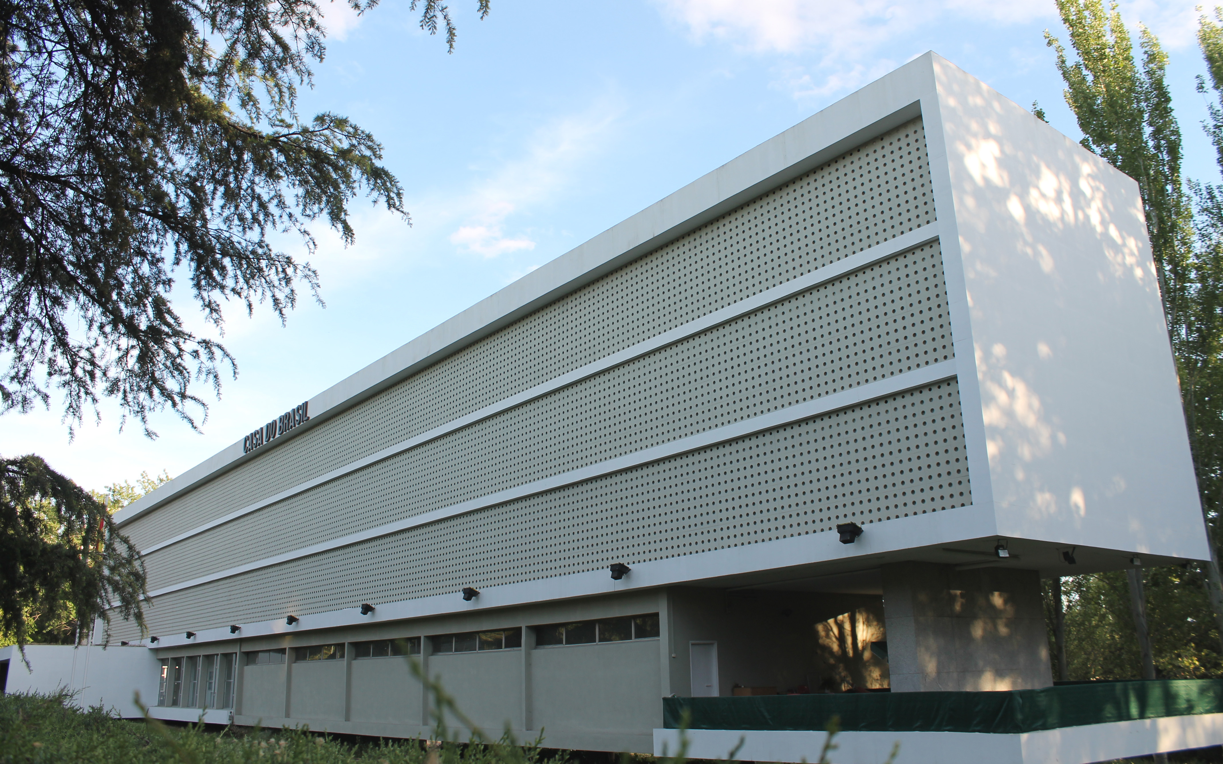 Façade of Casa do Brasil in Ciudad Universitaria in Madrid (Spain). Building was designed in 1959 by Luis Afonso D'Escragnolle Filho and built from 1960 to 1962.